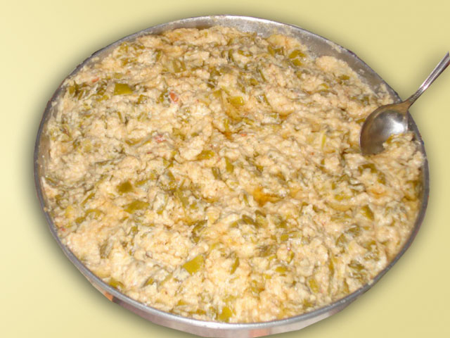 Boranı from Turkish cuisine